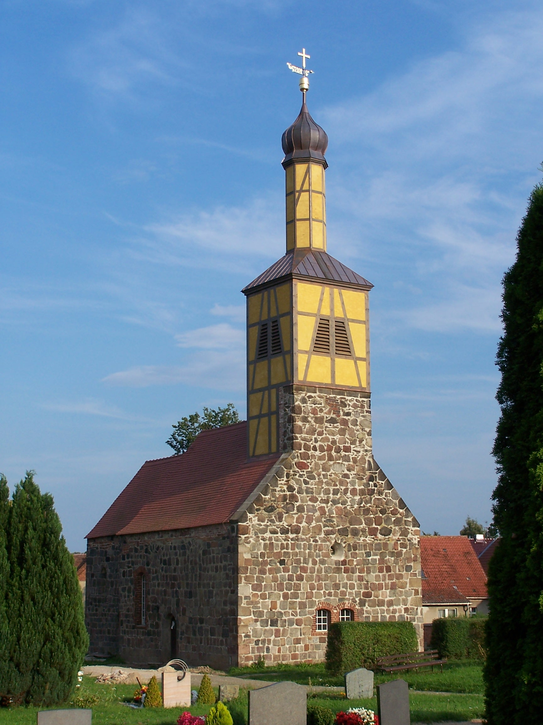 Church of Werbig with new Tower after Reconstruction 2011.